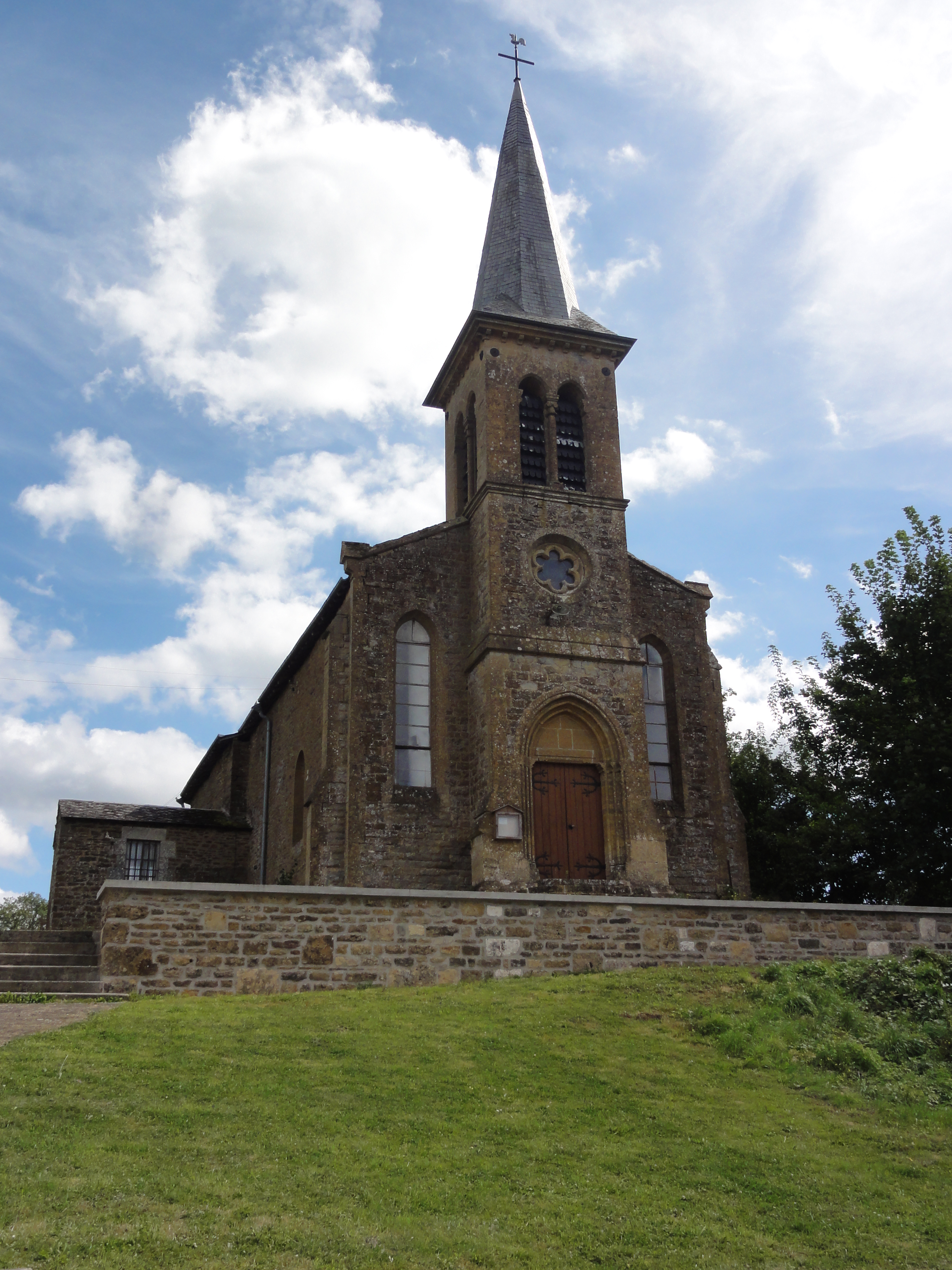 Étalle (Ardennes) église